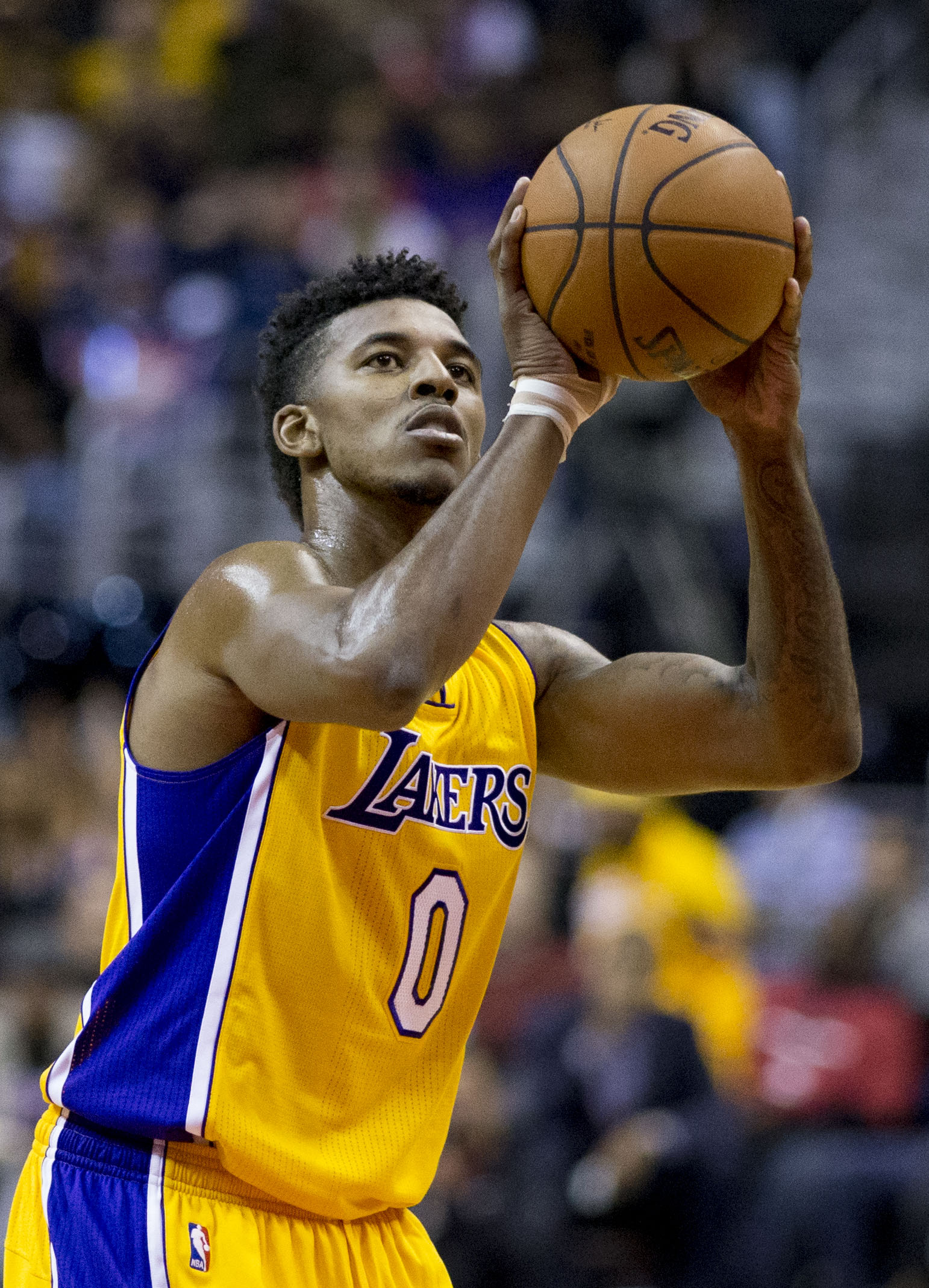 Lakers at Wizards 12/3/14